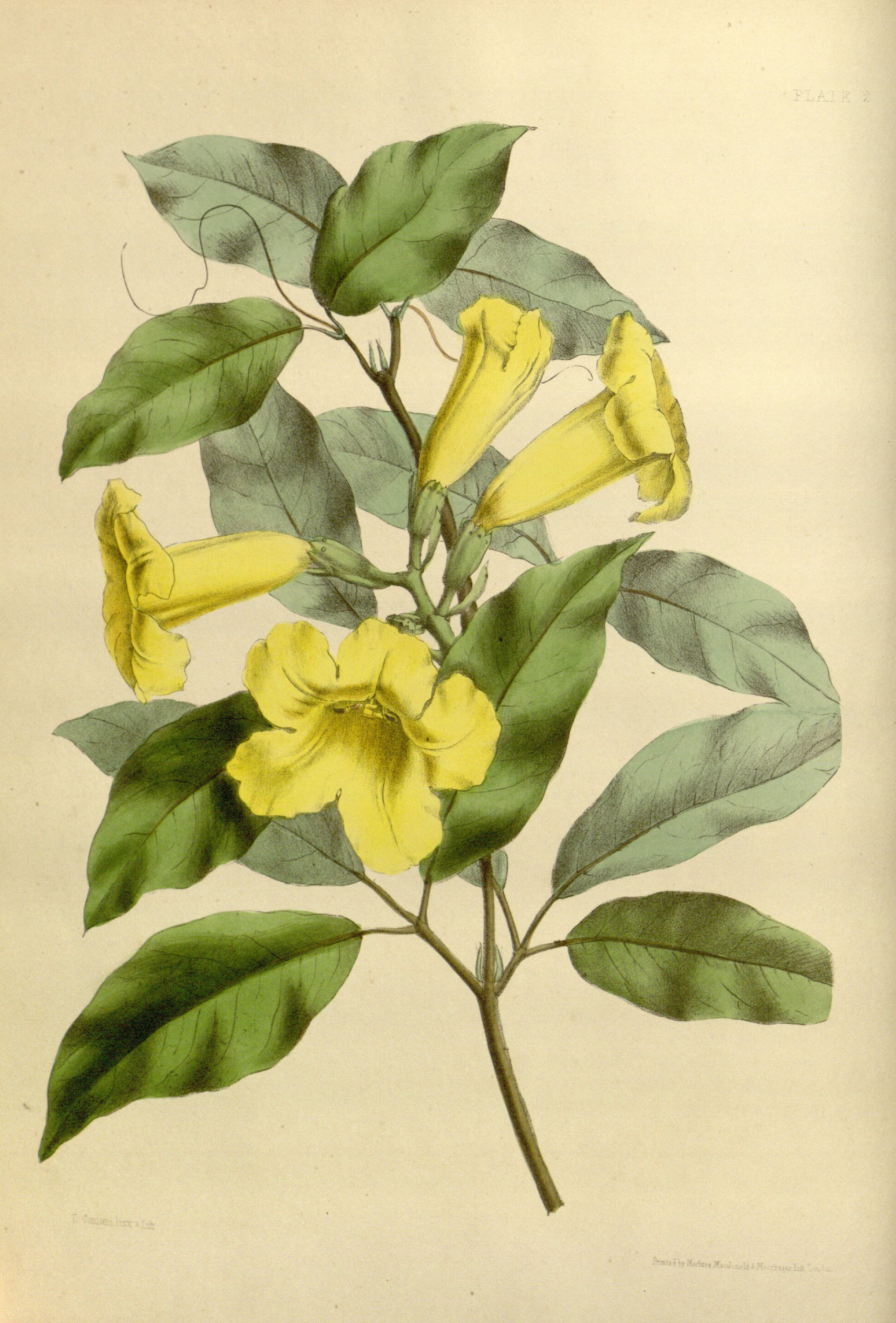 Adenocalymma comosum (Cham.) DC., syn. Adenocalymma comosum var. nitidum (Mart. ex DC.) Bureau & K.Schum.